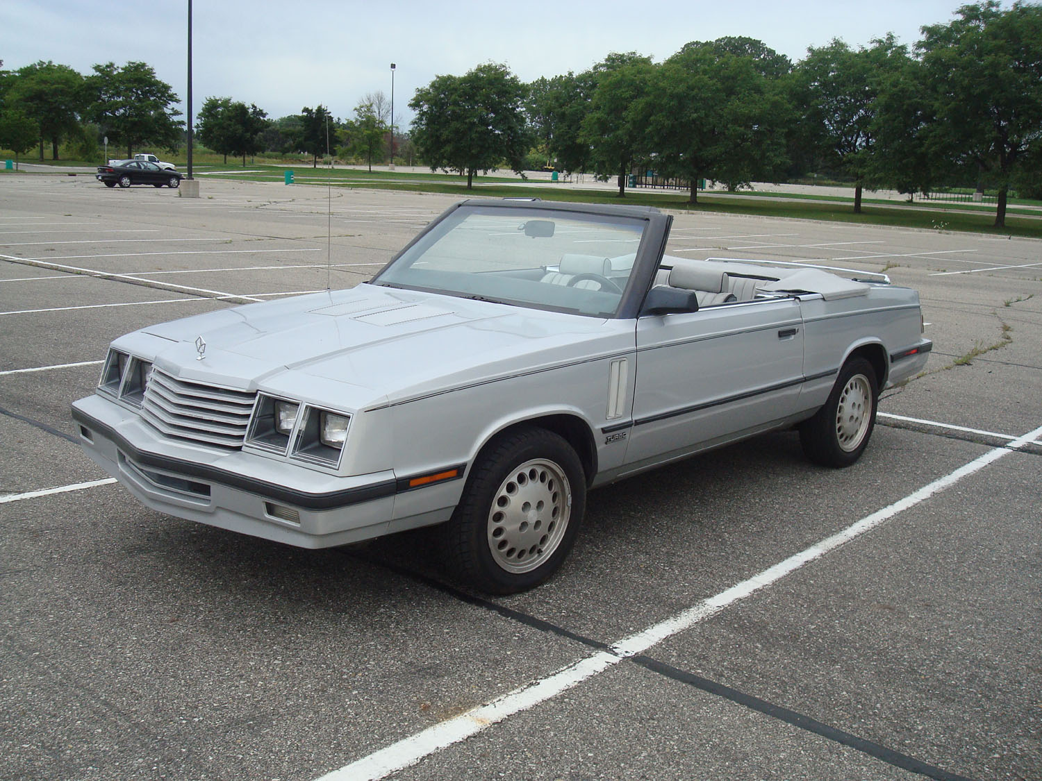 1984 Dodge 600 ES Turbo Convertible